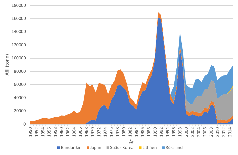 Sútrakrabbi afli veiddur 1950-2014, skipt eftir löndum